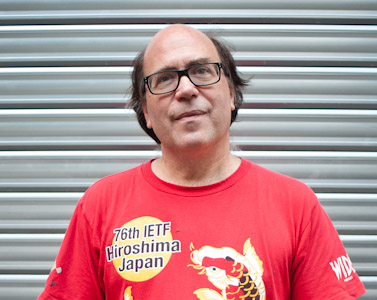 Stéphane Bortzmeyer à l'occasion de Pas Sage en Seine 2012.